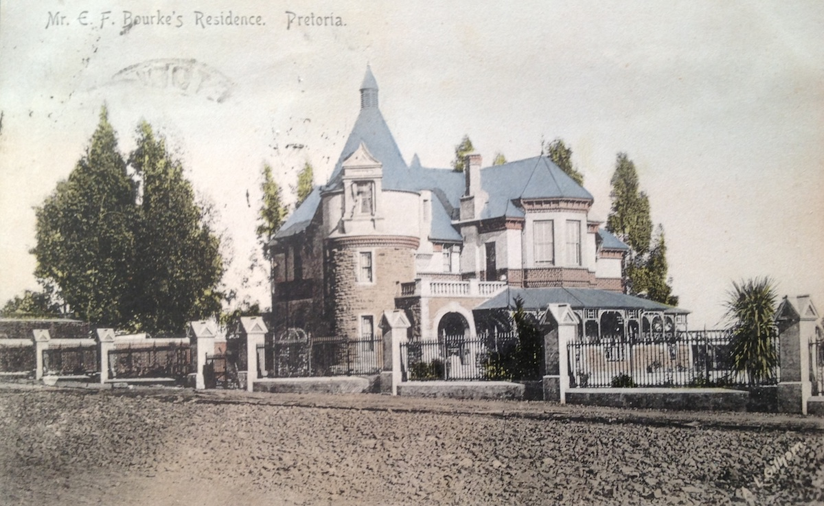 Postcard of Barton Keep 1906